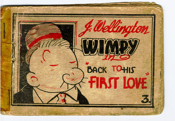 Scan of the cover of a Tijuana bible featuring Wimpy